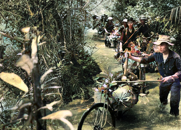 Transporting goods on the Ho Chi Minh Trail from North Vietnam to South Vietnam